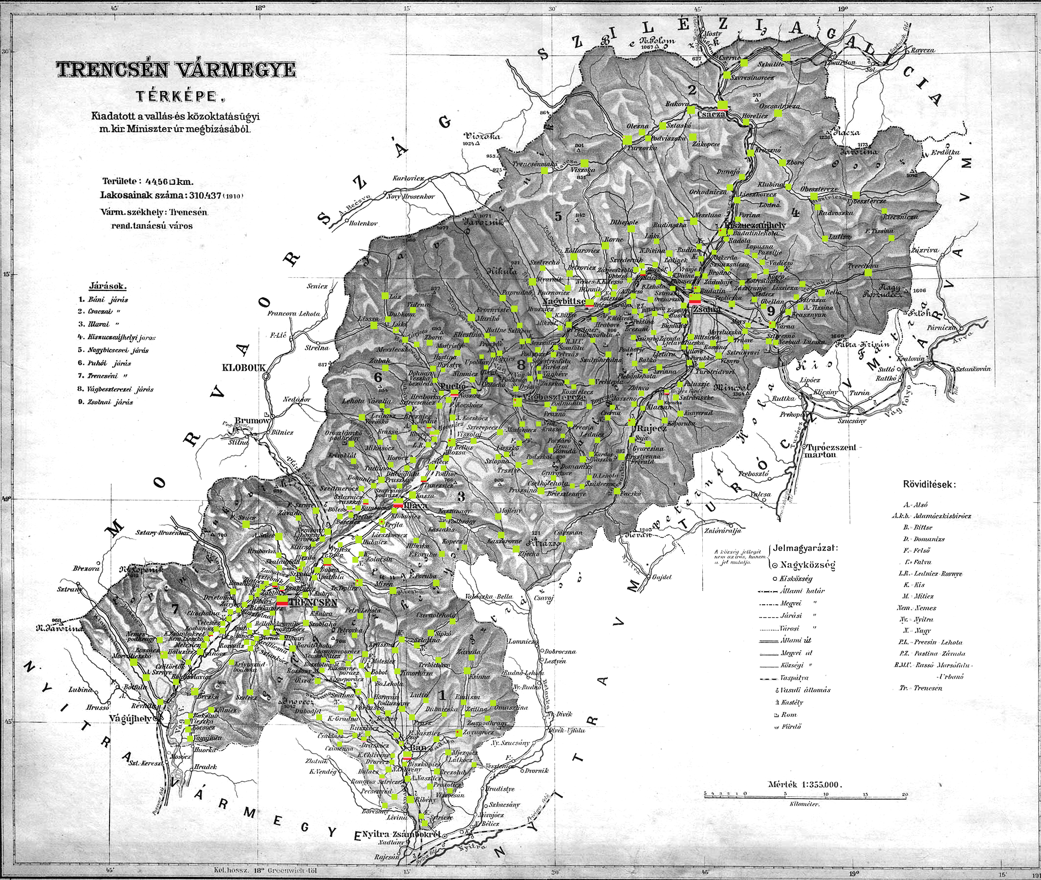 Ethnic map of the county (with data of the 1910 census). Key: light green - Slovaks; red - Hungarians; pink - Germans; orange - Polish. Coloured dots in plain rectangles imply the presence of smaller minority populations (generally more than 100 people or 10%). Multicoloured rectangles imply cities and villages with multi-ethnic populations with the order of the stripes following the ethnic composition of the settlement.